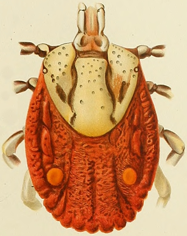 Cosmiomma hippopotamensis by Dönitz 1910, female